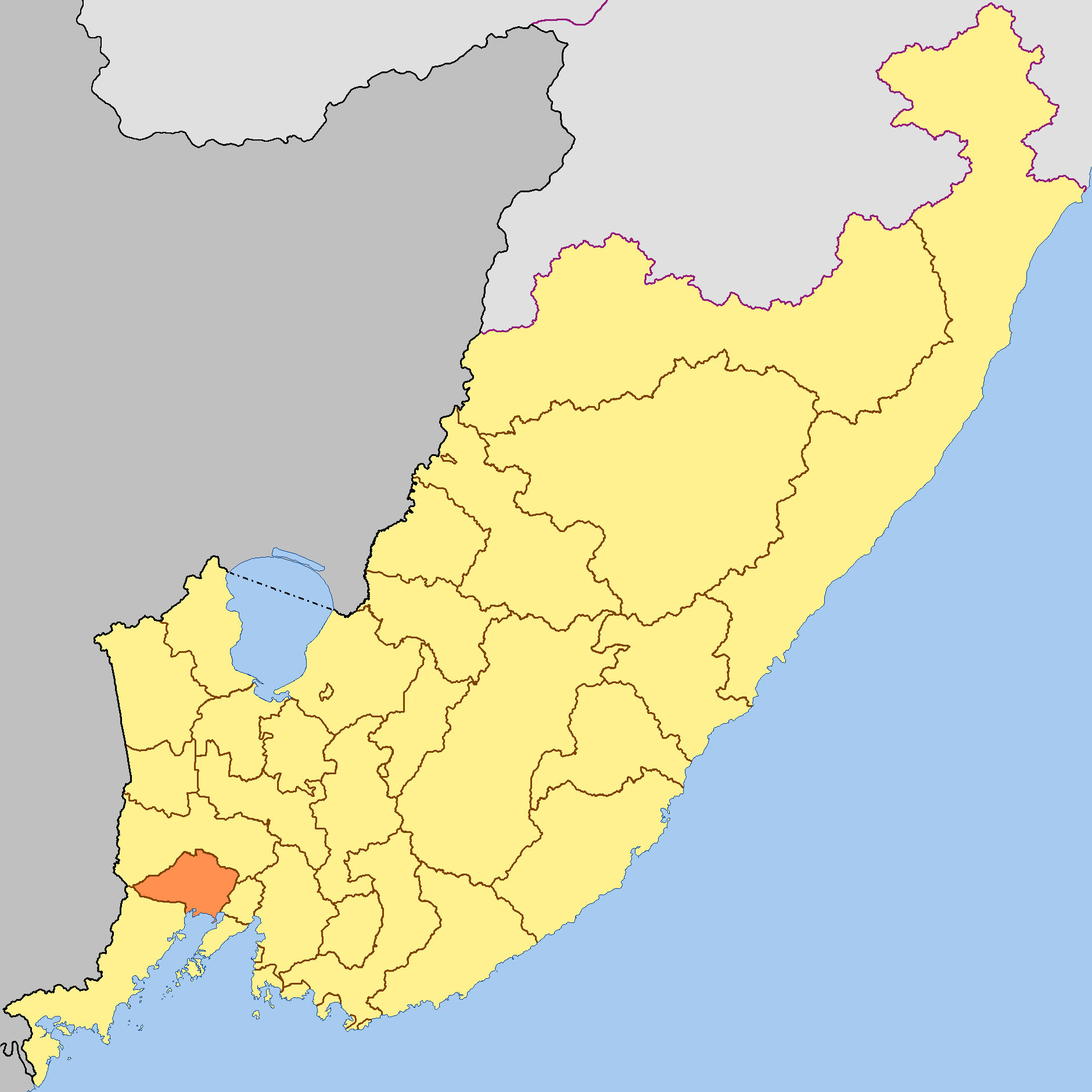 Nadezhdensky district on the map of Primorsky kray